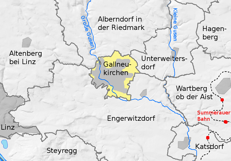 Municipality map of Gallneukirchen with neighbour municipalities